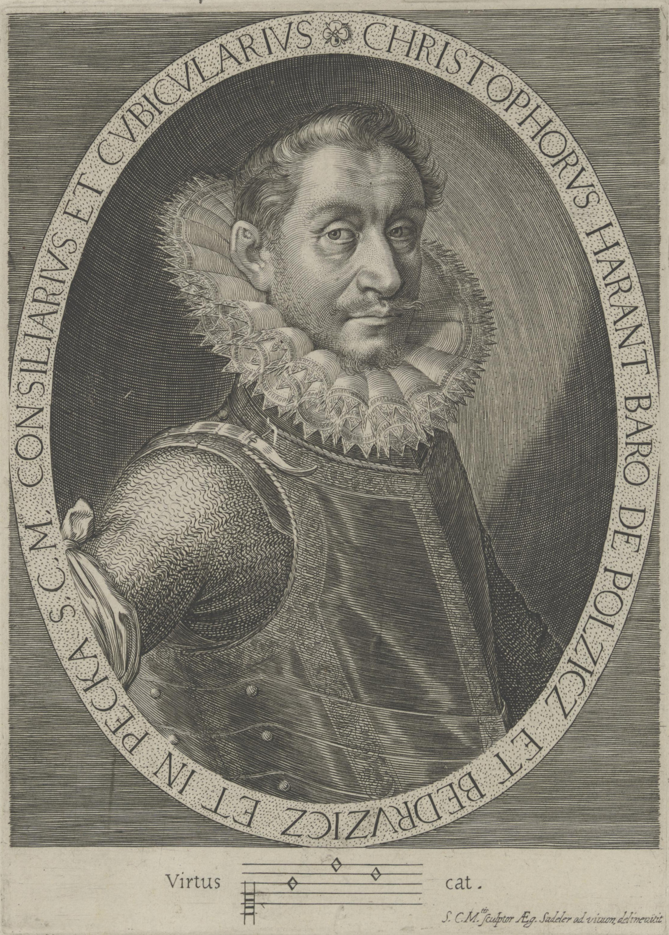 Portrait of nobleman Kryštof Harant by Aegidius Sadeler. Early 17th century.